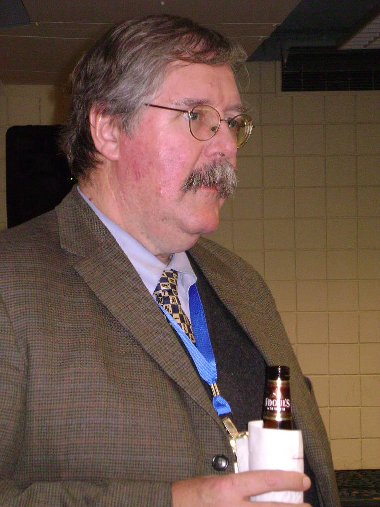 American markup language specialist Michael Sperberg-McQueen at the XML 2007 conference in Boston.